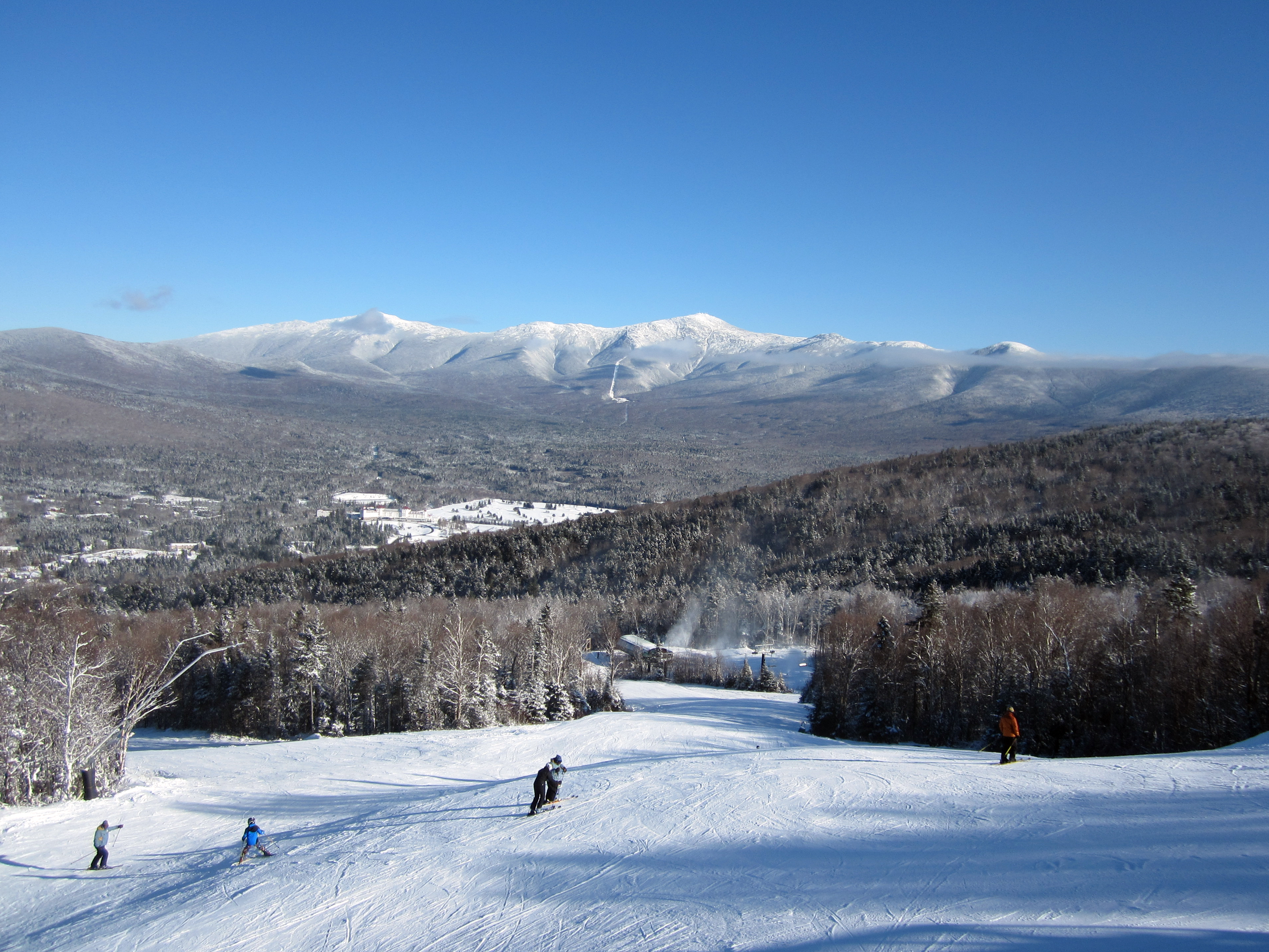 Top of the Bethlehem Express High Speed Quad at Bretton Woods Resort, NH. View of Mount Washington can be seen in the distance.